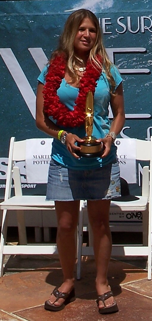 Sofia Mulanovich